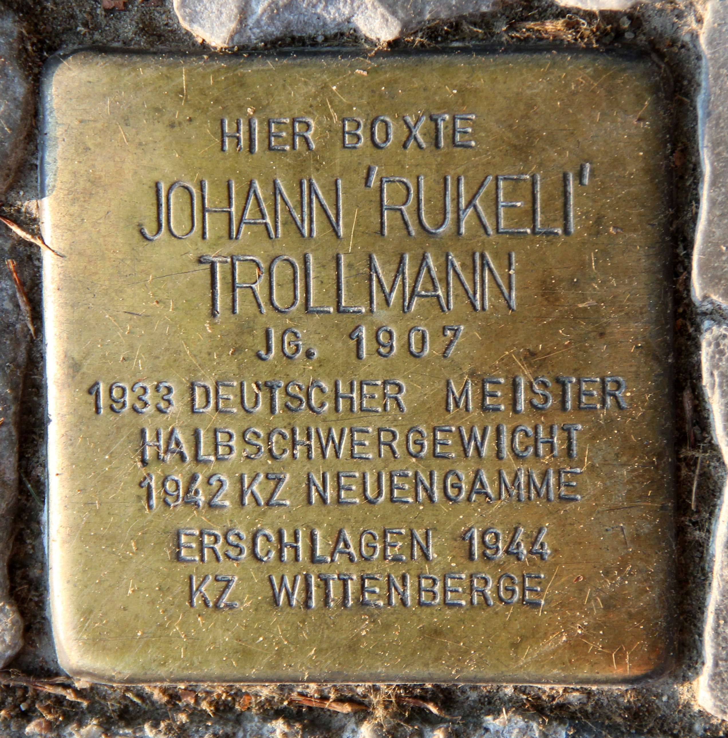 "Stolperstein" (stumbling block), Johann Trollmann, Fidicinstraße 2, Berlin-Kreuzberg, Germany